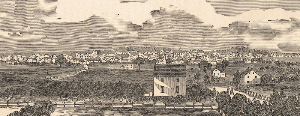 Gettysburg, Pennsylvania in 1863, as depicted by Alfred H. Guernsey and Henry M. Alden ("Harper's Pictorial History of the Civil War", Chicago, Illinois: Puritan Press, 1894, p. 506; via House Divided, The Civil War Research Engine at Dickinson College).